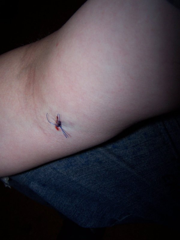 "I received three stitches after I knelt down to spread bark and a kitchen knife that was in a pocket on my pants leg which I had been using to cut open bags of bark punctured my upper right arm, nearly missing an artery and a bundle of nerves."